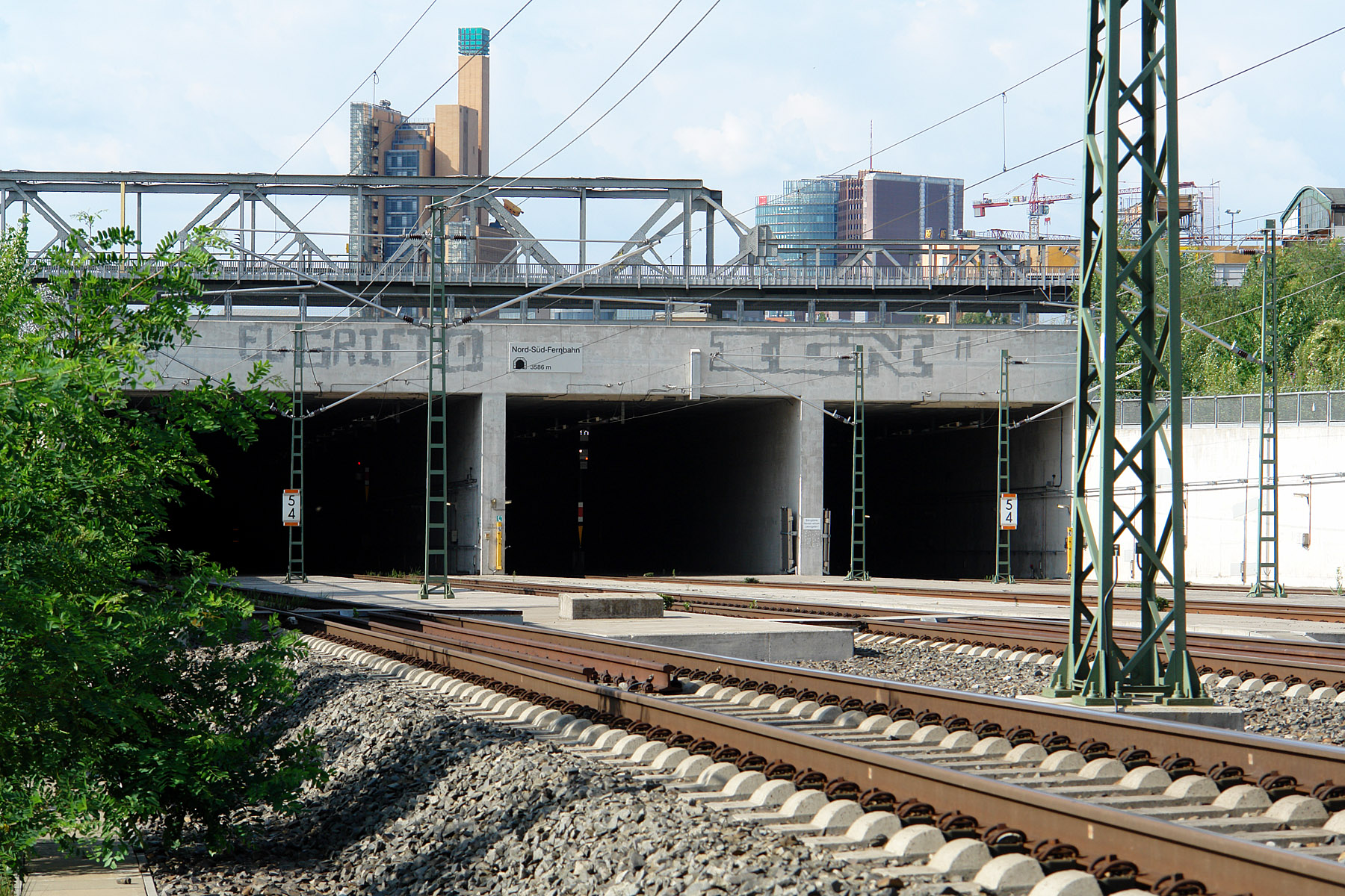 Southern entrance of the rail tunnel under the Tiergarten in Berlin.